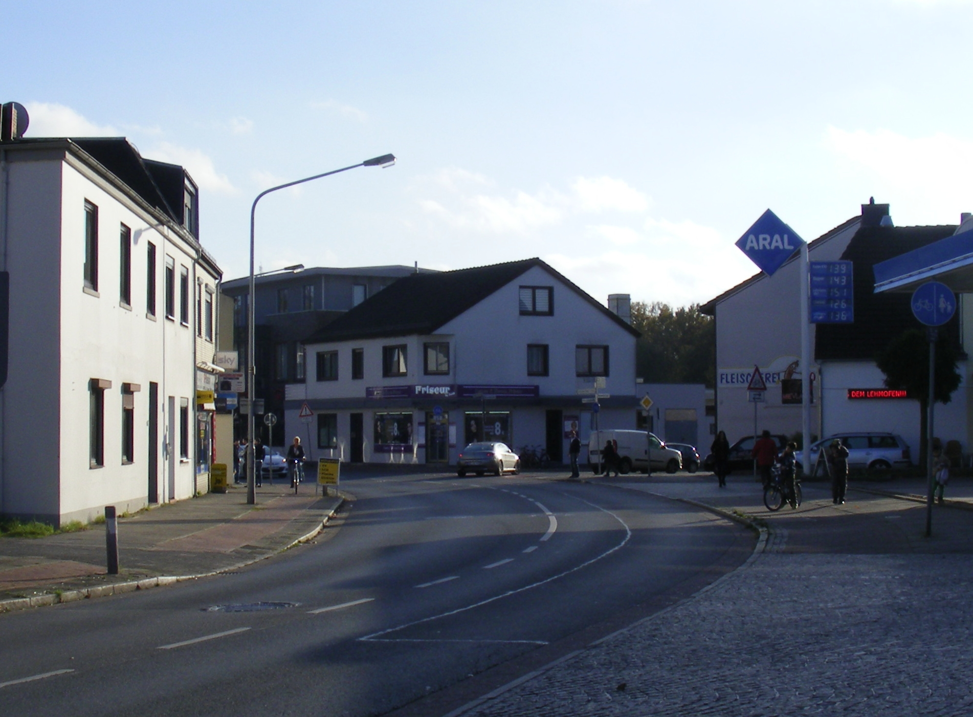 Bremen: Southern end of Hannoversche Str. (right cycletrack bidirectional and compulsory, opposite one unidirectional and facultative) with junction of Marschstr. (signpost turned clockwise by 90°) and onset of Hemelinger Heerstr.